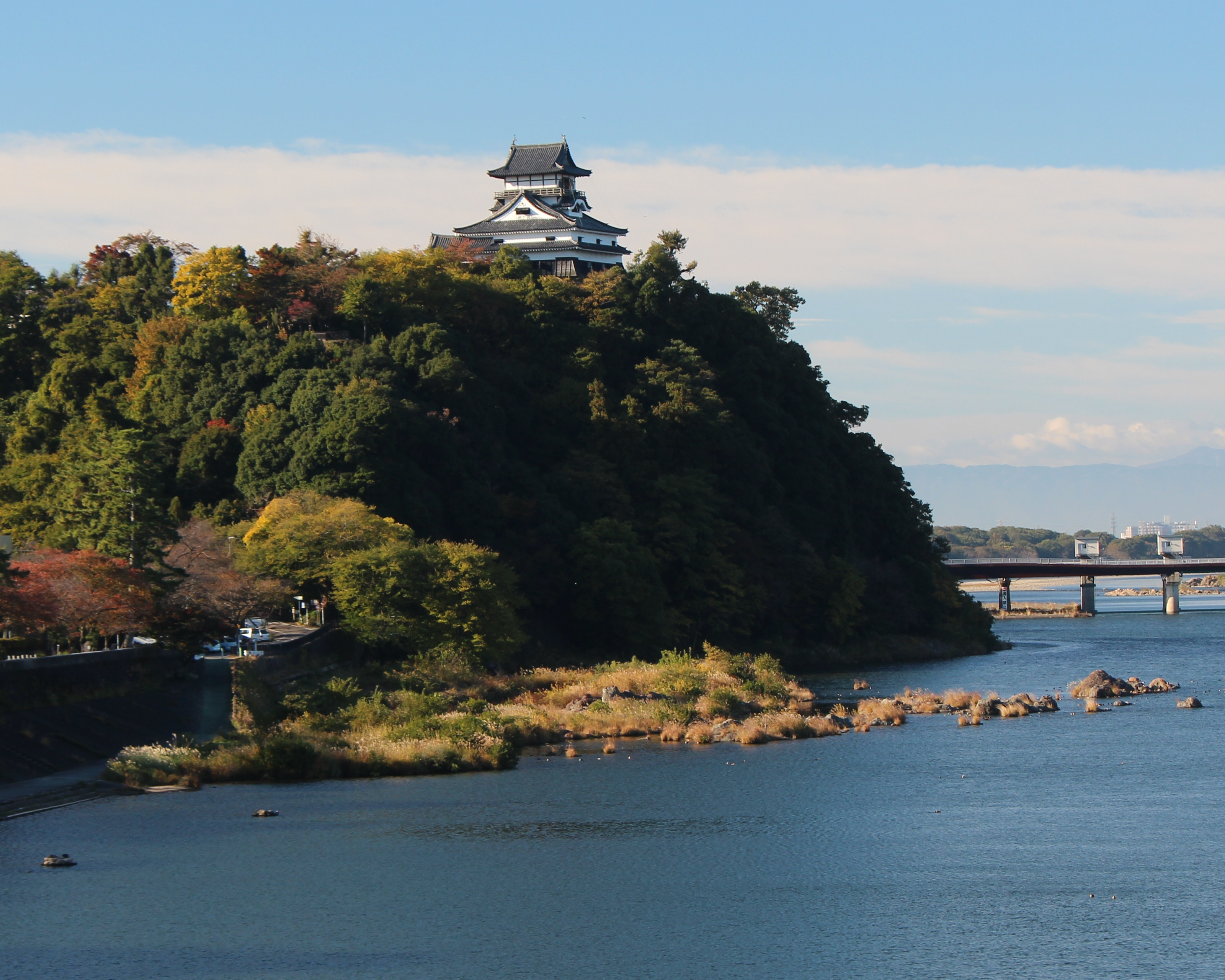 Inuyama Castle seen from Inuyama Bridge of Kiso River